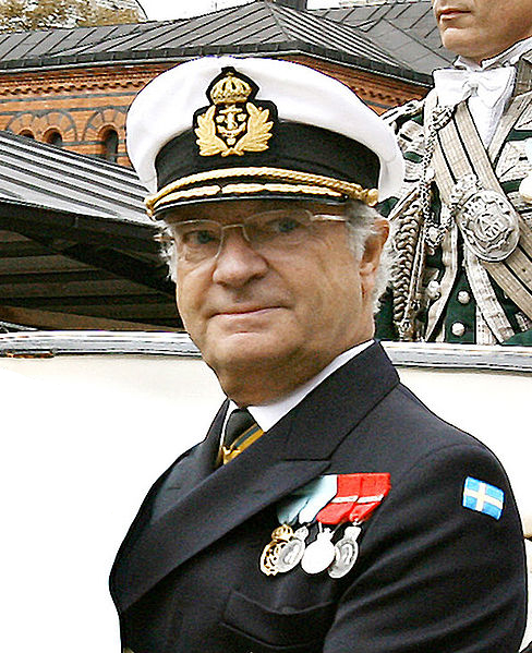 king Carl XVI Gustaf of Sweden